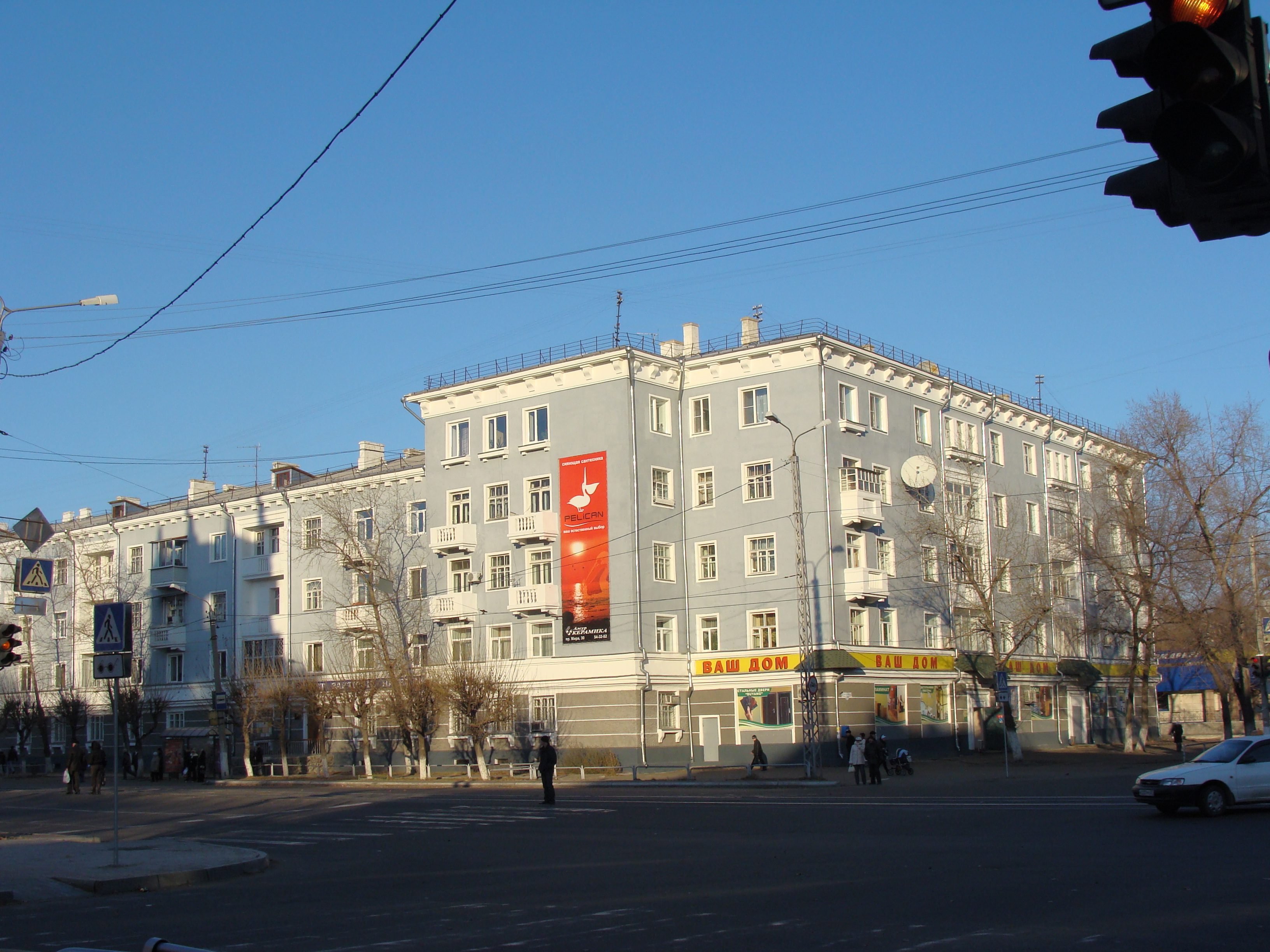 The intersction of two streets in Komsomolsk-on-Amur